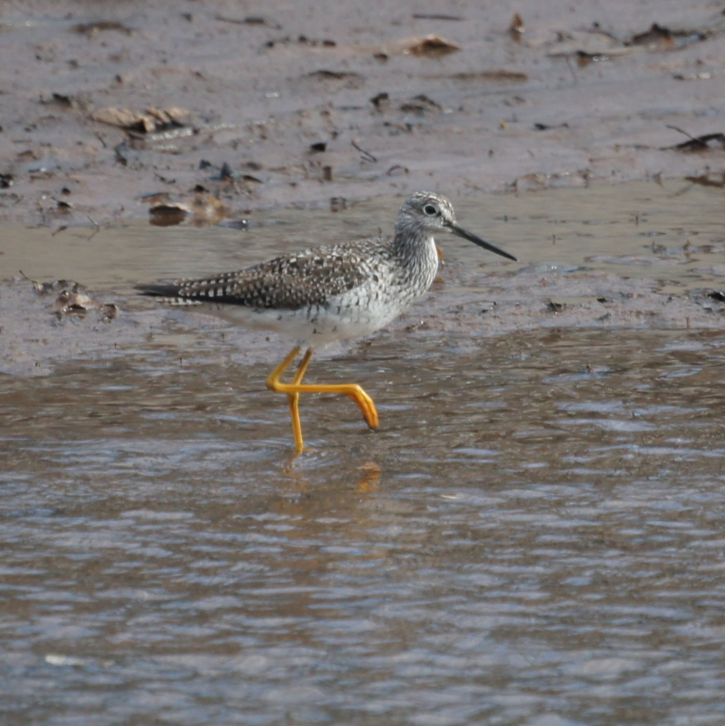 Greater Yellowlegs Tringa melanoleuca, Piscataway, New Jersey, USA